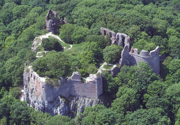 Pajštún Castle, Slovakia, aerial photography